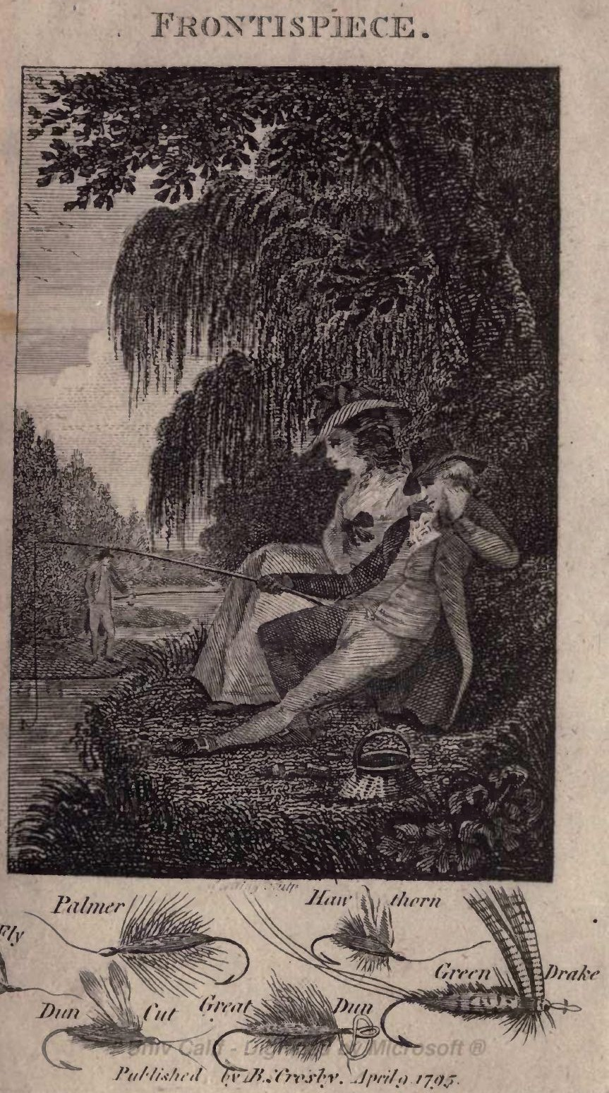 Frontpiece from A Concise Treatise on the Art of Angling, Thomas Best, 1787